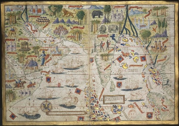 Map of the Atlas Miller showing the Indian Ocean.